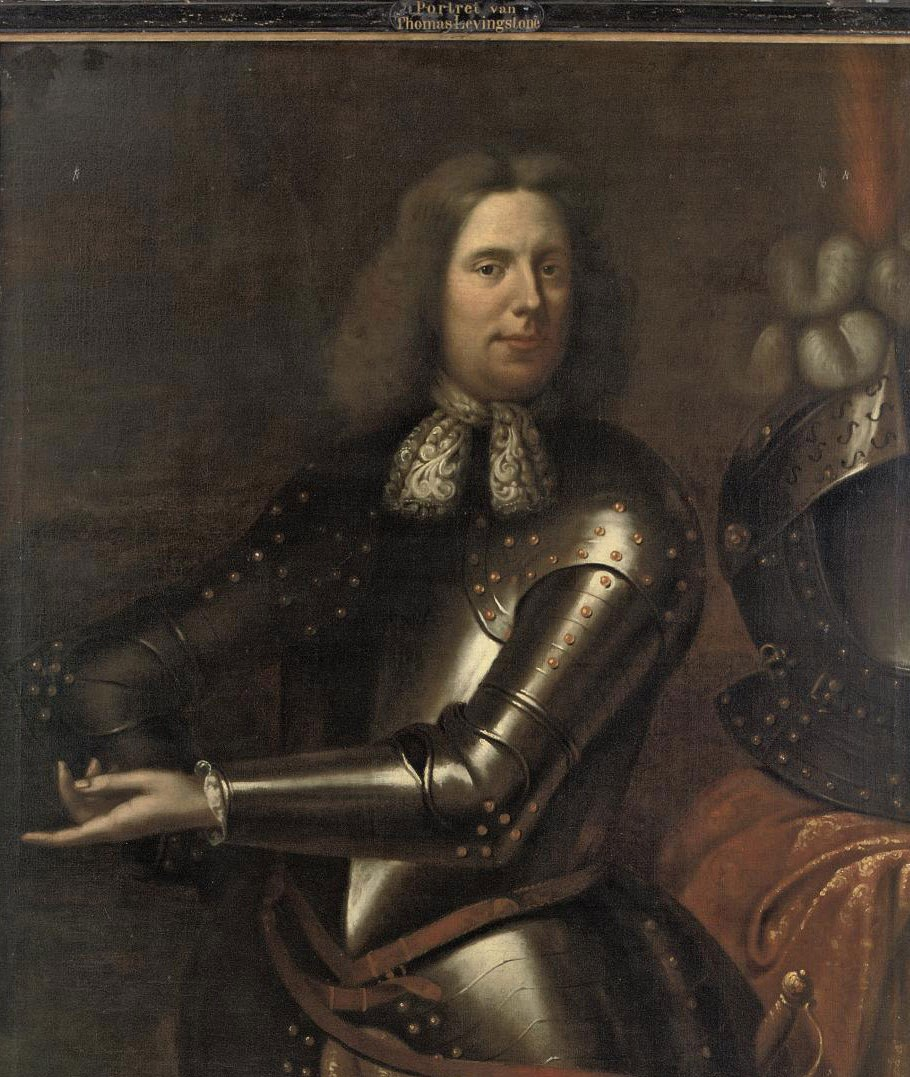 Portrait of Thomas Levingstone, viscount Teviot